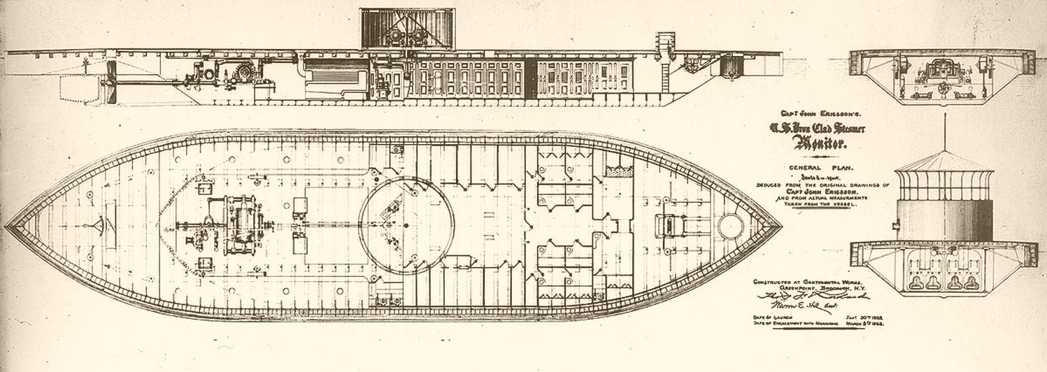 US Naval photograph of engraving of plans for USS Monitor